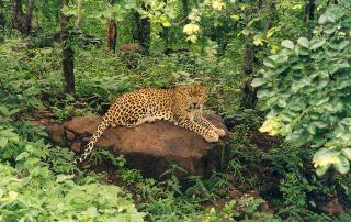 Indian leopard (Panthera pardus fusca). Photograph taken by LRBurdak.